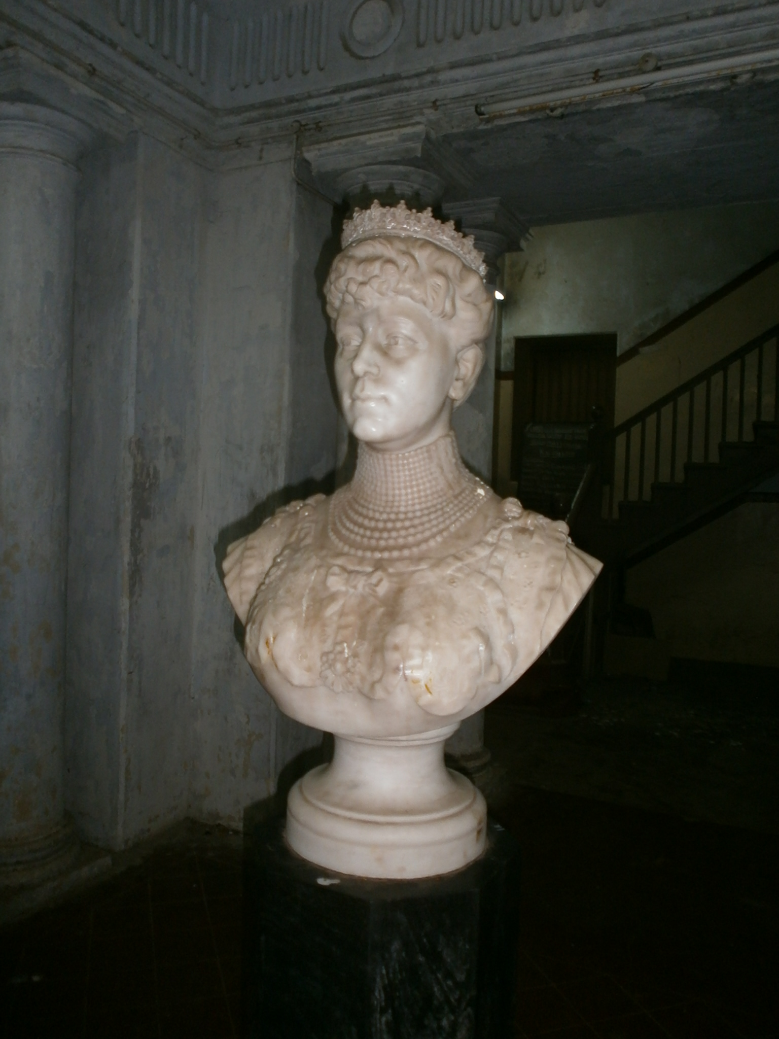 Queen-Marys-College-Chennai-Queen-Mary-Statue